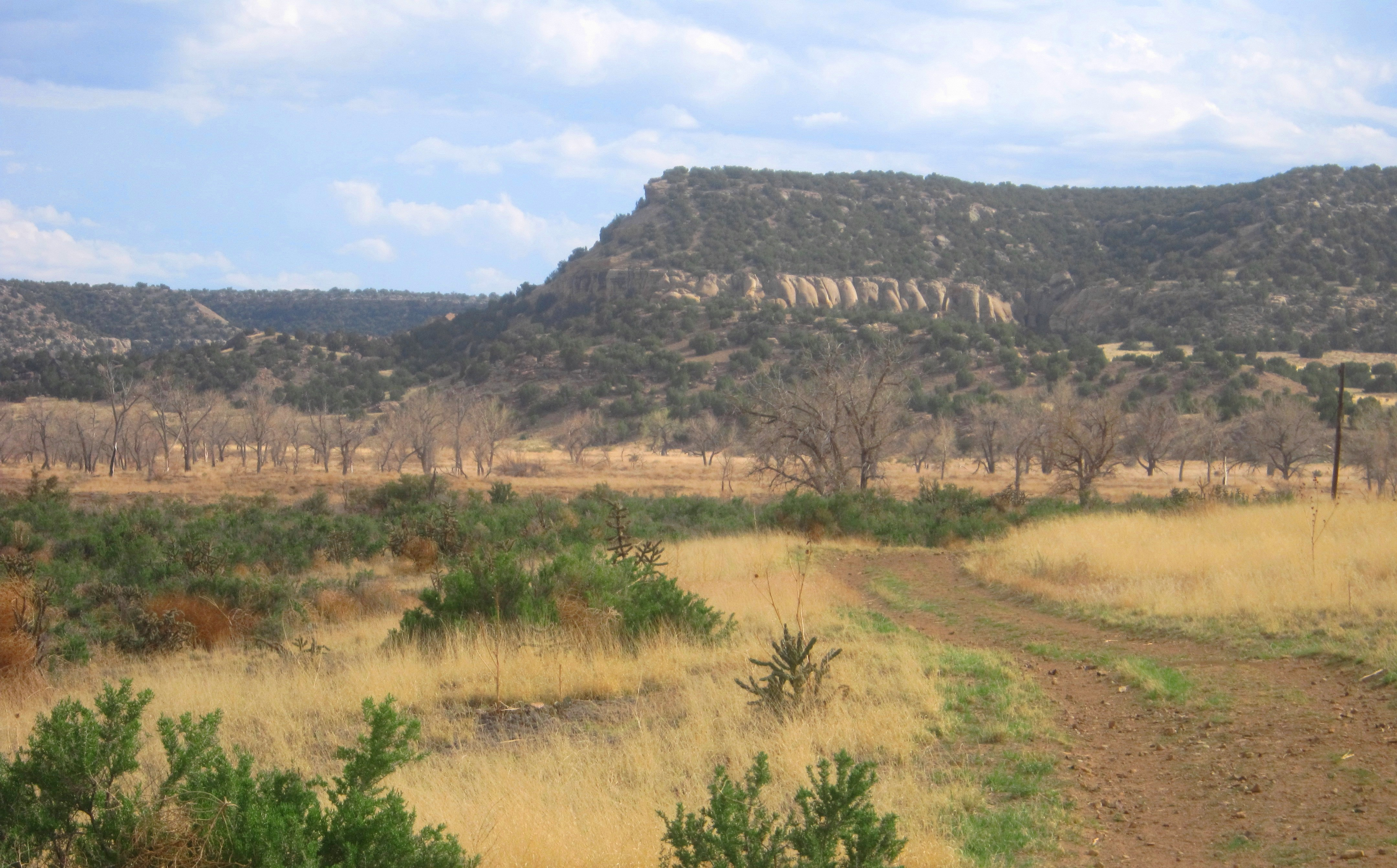 North end of Picketwire canyon in southeast Colorado